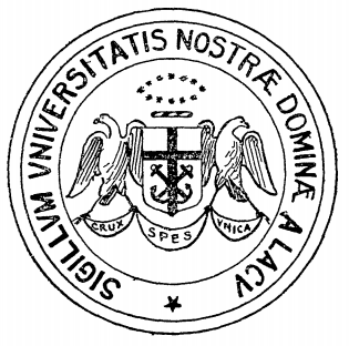 Second Seal of the University of Notre Dame, used between 1901 and 1930. The seal is derived from the seal of the Congregation of Holy Cross.